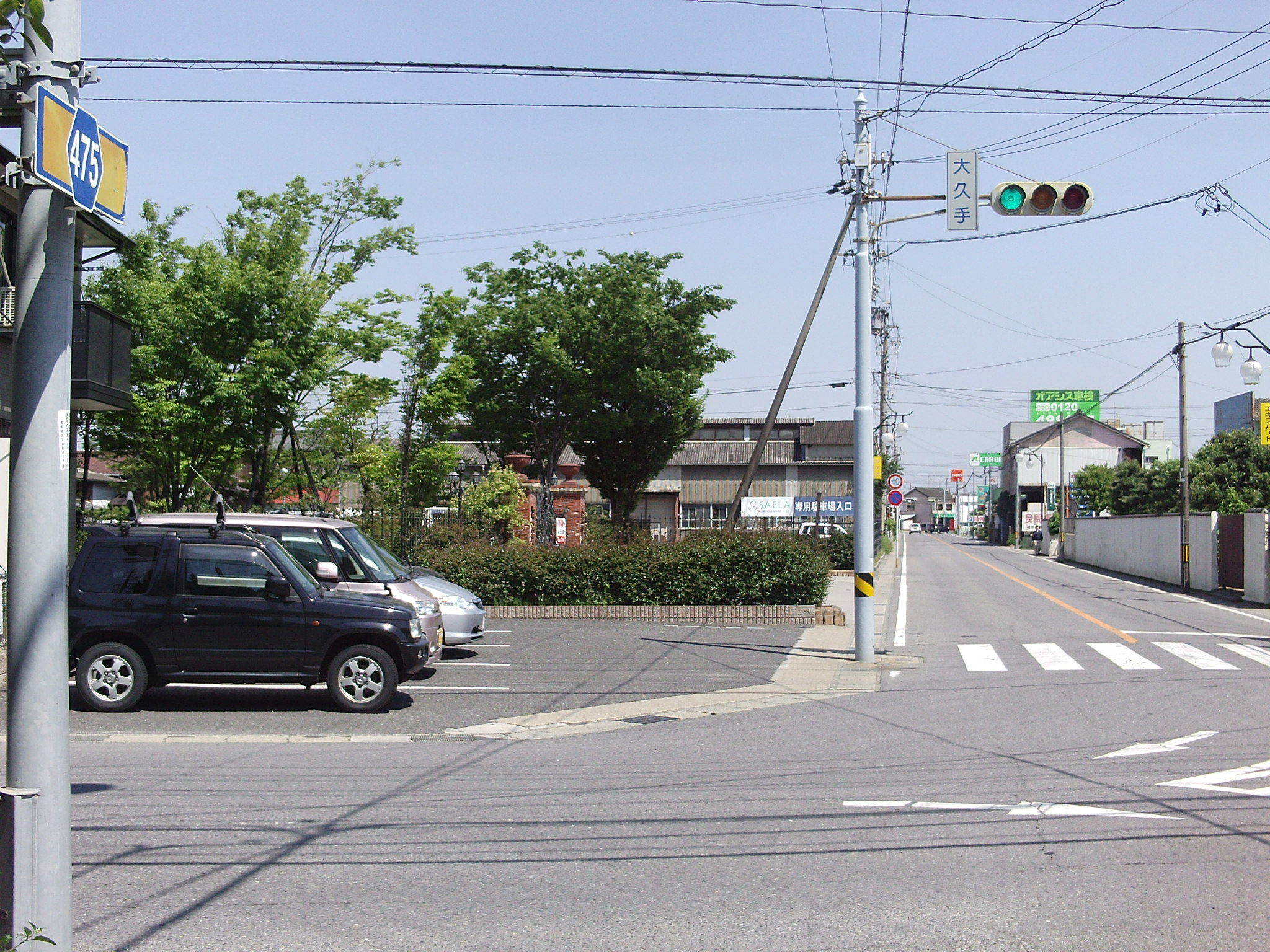 Aichi prefectural road No.475 in Rokkenmachi 2-chome, Hekinan, Aichi.